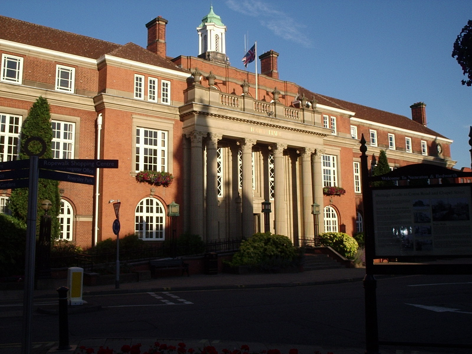 Nuneaton Town Hall, found in the town centre, and home to Nuneaton and Bedworth borough council. Taken 9 August 2011